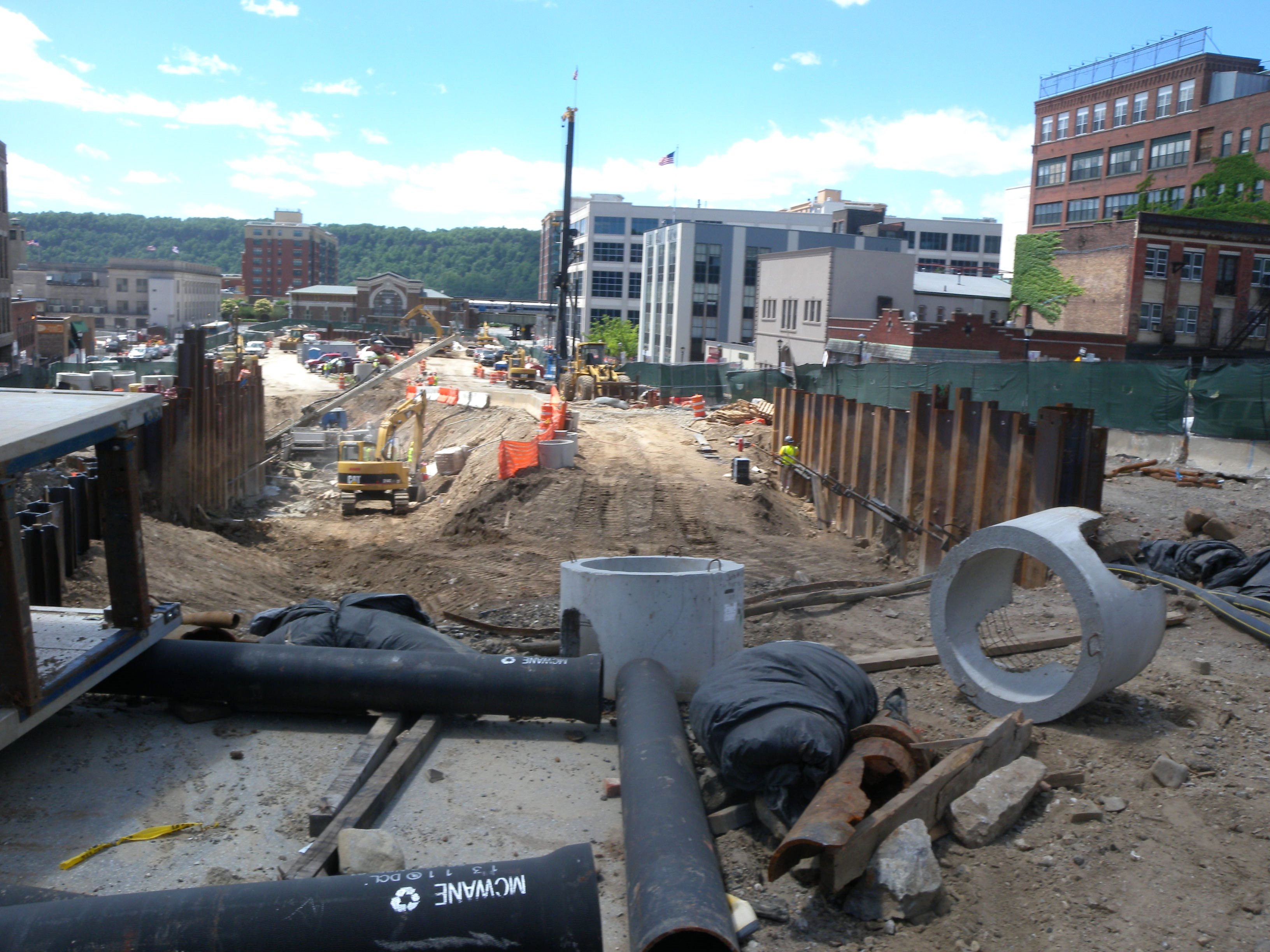 Looking west at Getty Square construction on a sunny early afternoon. See Talk:Getty Square; this may actually be Larkin Plaza.